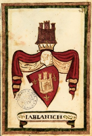 Coat of Arms of Raden Jablanic, the former of the Pavlovic dynasty